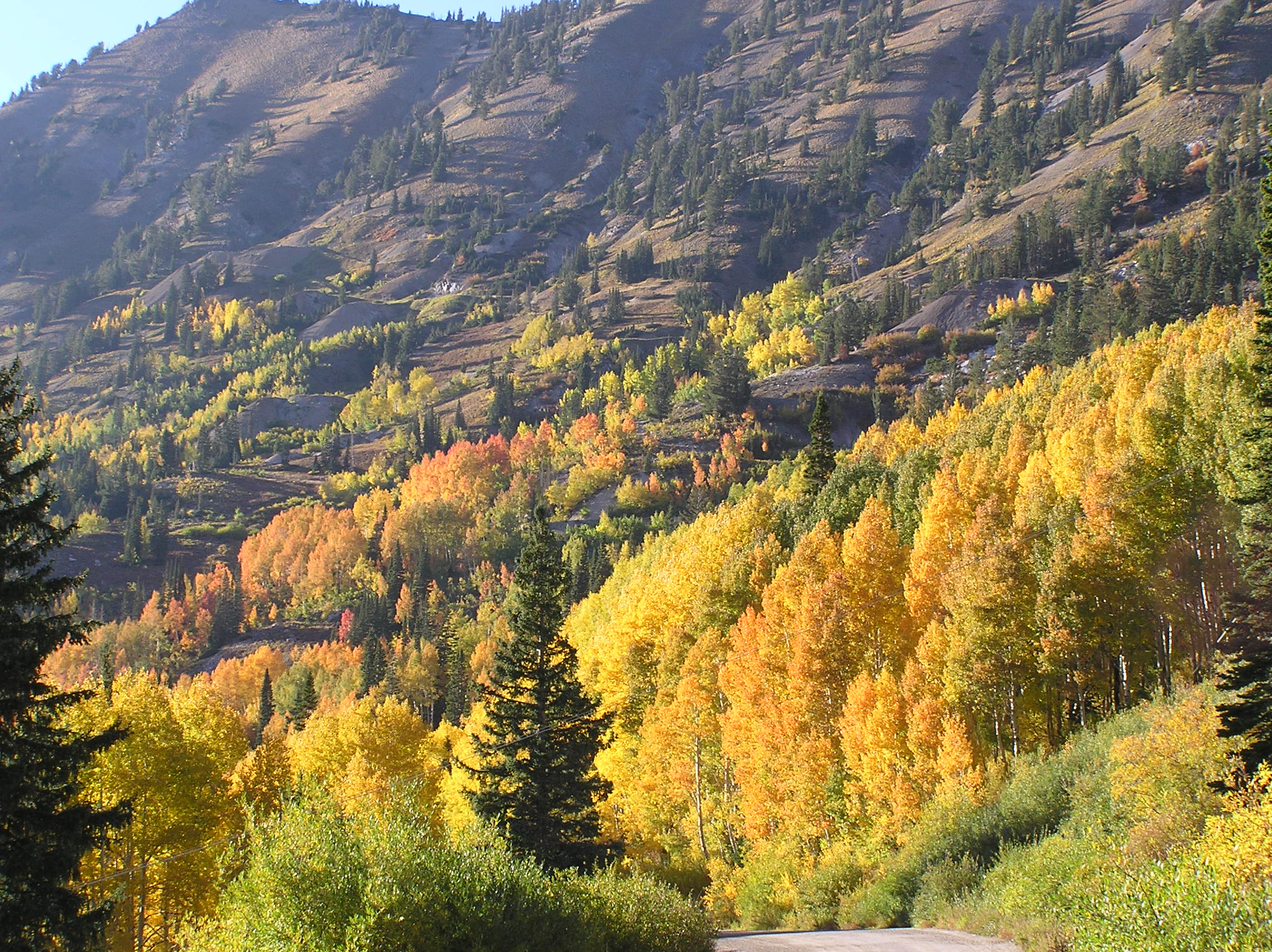 Fall Foliage, Little Cottonwood Canyon, Salt Lake County, Utah.